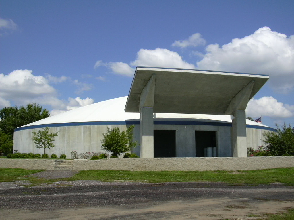 Des Moines, Iowa, July 24, 2004 -- This tornado shelter for 400 campers at the Iowa State Fairgrounds outside Des Moines was completed in 2003. The 5,200 square-foot shelter is 100 feet long by 71 feet wide. When not in use as an emergency shelter, the large multi-purpose building is used by both the fairground staff and campers for restrooms, showers, a laundry area, offices, and meeting space. The shelter, funded through a $600,000 grant from FEMA's Hazard Mitigation Grant Program with the Iowa State Fair funding the remaining $150,000. In June 1998, a storm with winds in excess of 100 miles per hour (mph) caused over $465,000 in damage to the State Fair complex, severely impacting the campground with fallen trees and limbs. Fortunately, no one was hurt during this event, but the potential for disaster and loss of human life was obvious. The roof and the unique curved walls of the structure are constructed of 12- inch-thick, precast concrete panels. The concrete uses a special formwork that retains the overall curved shape. The pie-shaped panels enable the roof to be the required width without exceeding a maximum span of 32 feet. The roof and wall panels are connected with welded steel plates. On the east side of the structure, a concrete canopy mounted on concrete piers provides weather protection. The canopy has been designed to withstand 250-mph winds and to prevent them from becoming a debris hazard themselves during a high-wind event. A future canopy on the west side is planned to cover the entry to the shelter from the road. The canopy on the east side of the shelter provides cover for gatherings at the campground such as small musical groups and social events; descending steps radiating from beneath the canopy promote its use as a stage. FEMA Photos/Tom Hurd